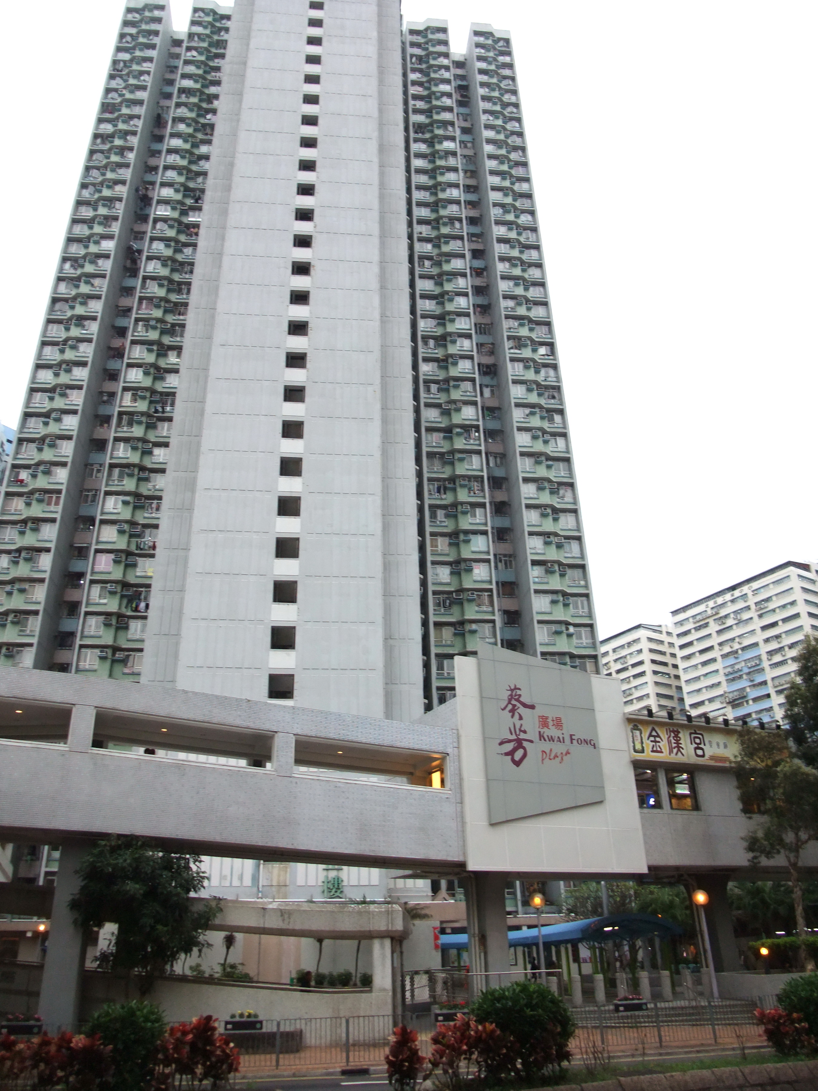 Footbridge to Kwai Fong Plaza (lower right). Kwai Ching House of the Kwai Fong Estate is at the back.